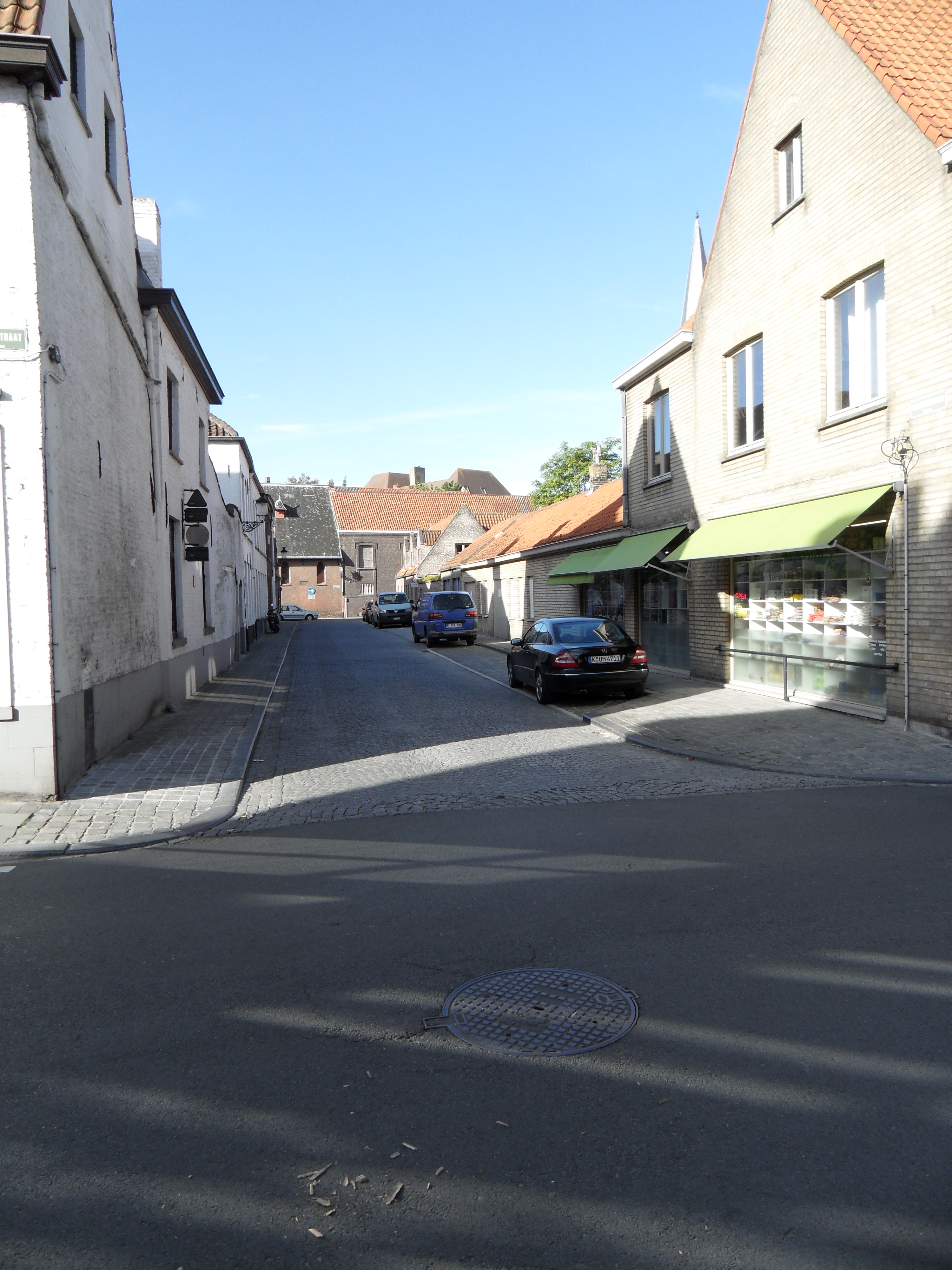 Kalkovenstraat